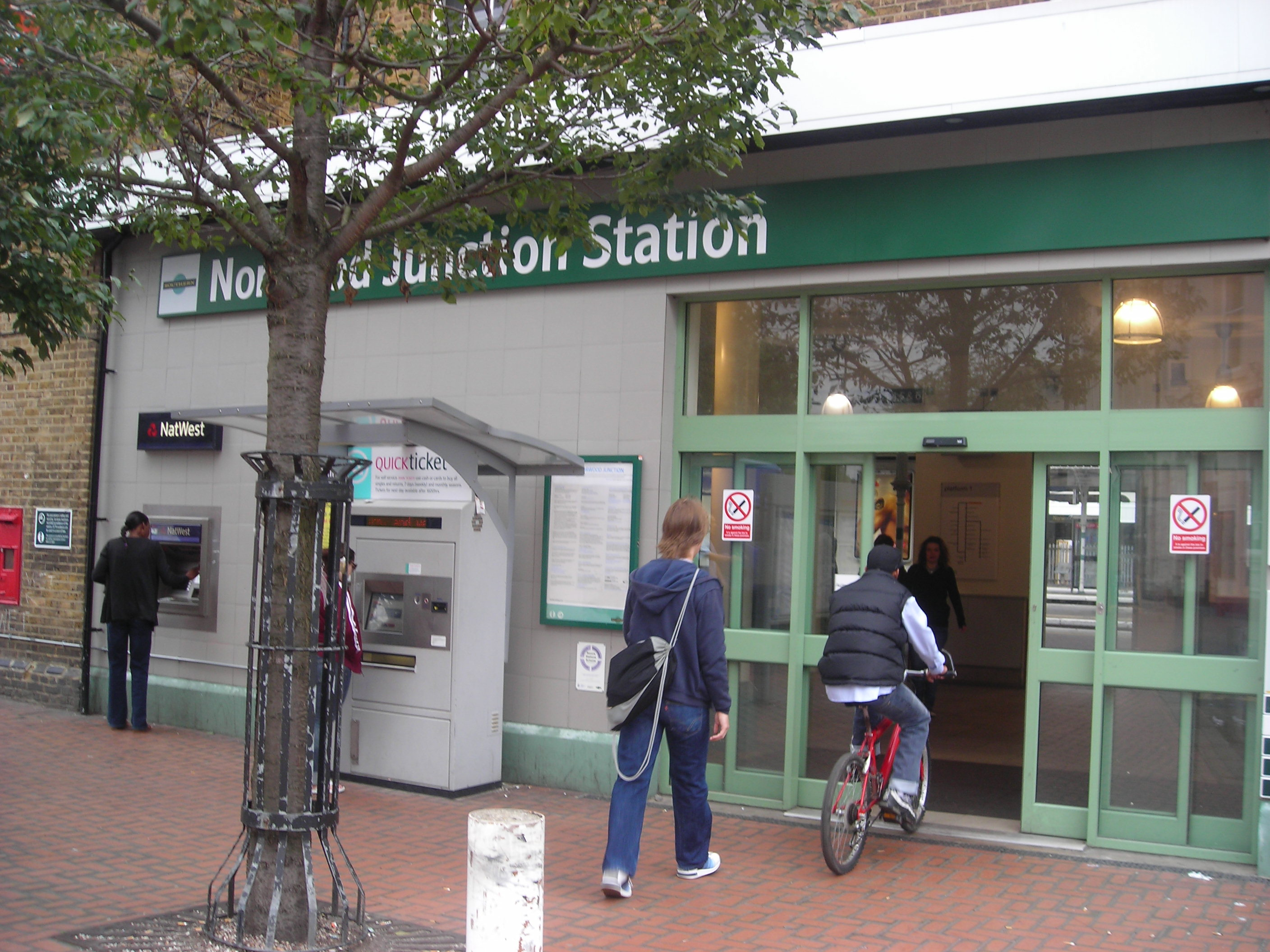 The main entrance into Norwood Junction station, South London